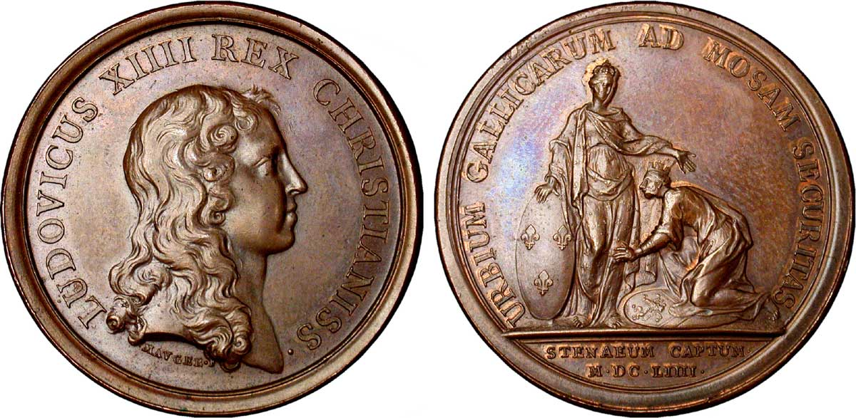 Médaille de la bataille de Stenay, la bataille qui eut lieu en 1654 fut frappée en médaille seulement en 1702. Description avers : Tête de Louis XIV jeune à droite, au-dessous signature MAVGER F. . Description revers : La France debout, la main droite appuyée sur un bouclier fleurdelisé. Devant elle, à genoux, la ville de Stenay, sous les traits d’une femme couronnée de tours et prosternée sur l’écusson de la ville ; à l’exergue : STENAEUM CAPTUM/ M. DC. LIIII .